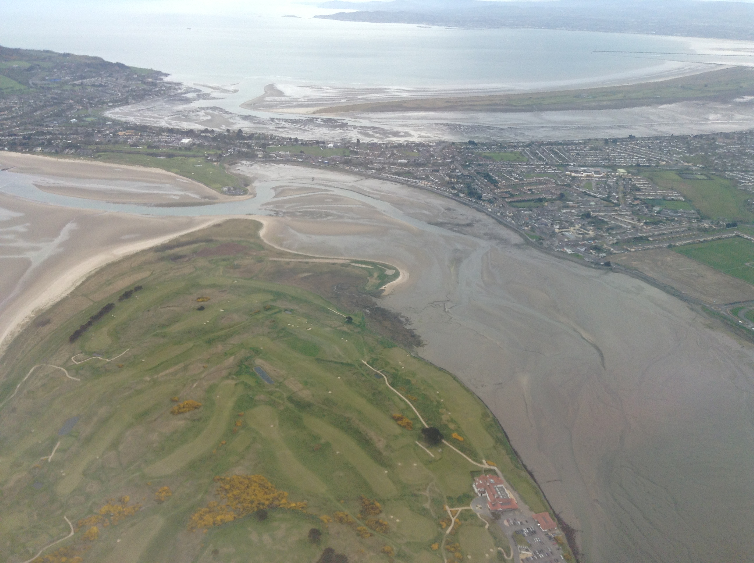 Aerial view of the coast of Dublin (Ireland).